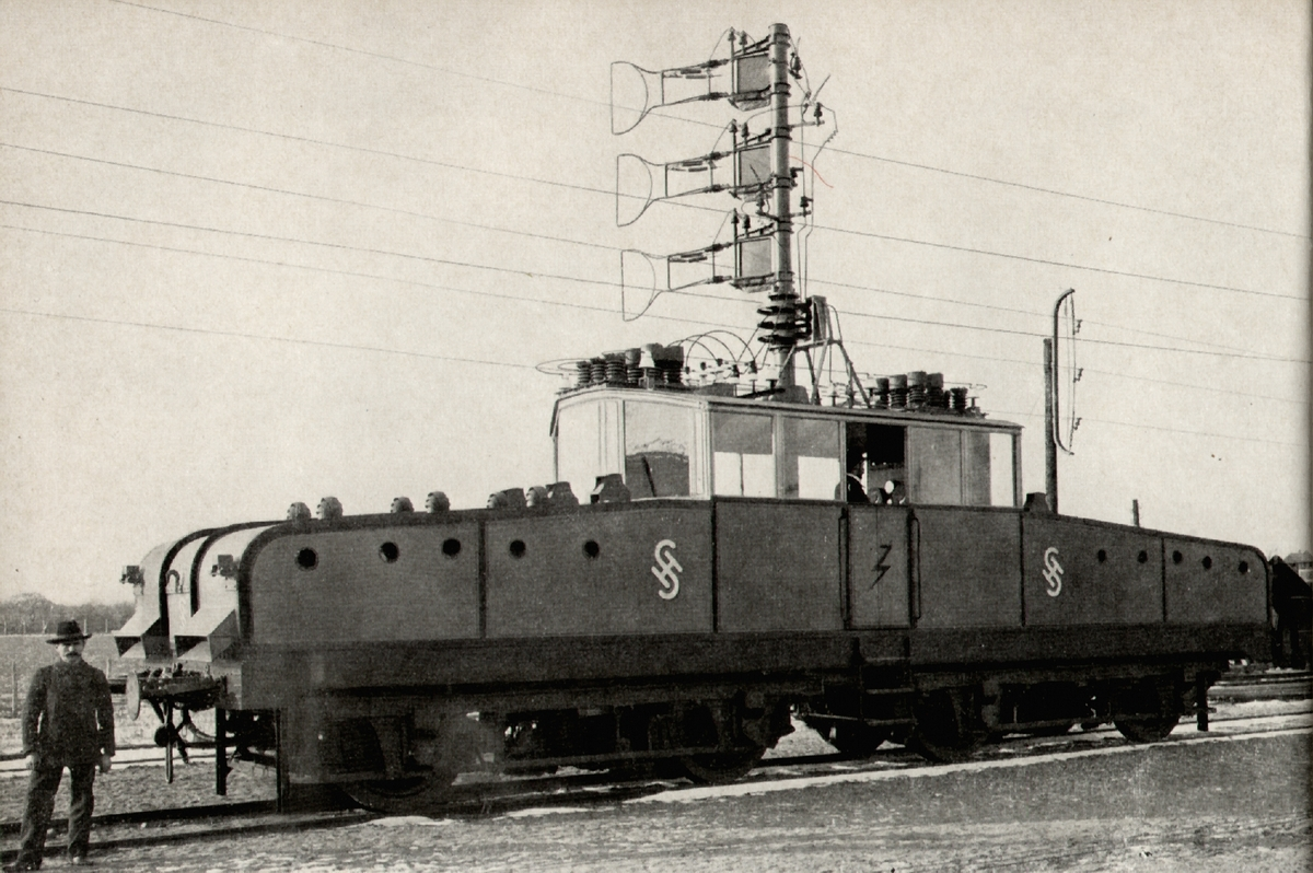 Three phase experimental locomotive, manufactured by Siemens&Halske in 1902, run by Studiengesellschaft für Elektrische Schnellbahnen. Tested between (Berlin-)Marienfelde and Zossen.